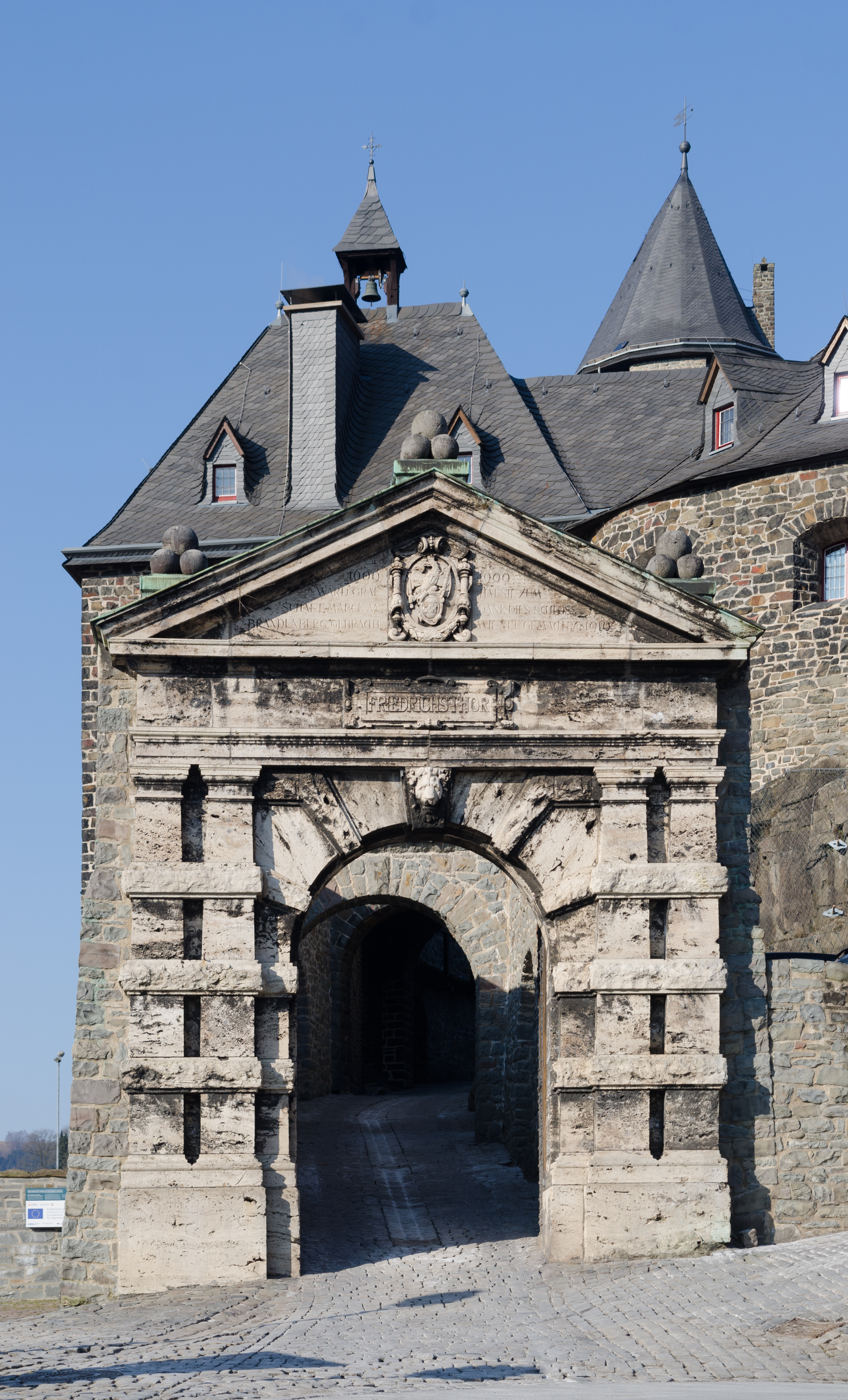 Altena (North Rhine-Westphalia, Germany) – Altena Castle – Frederick's Gate